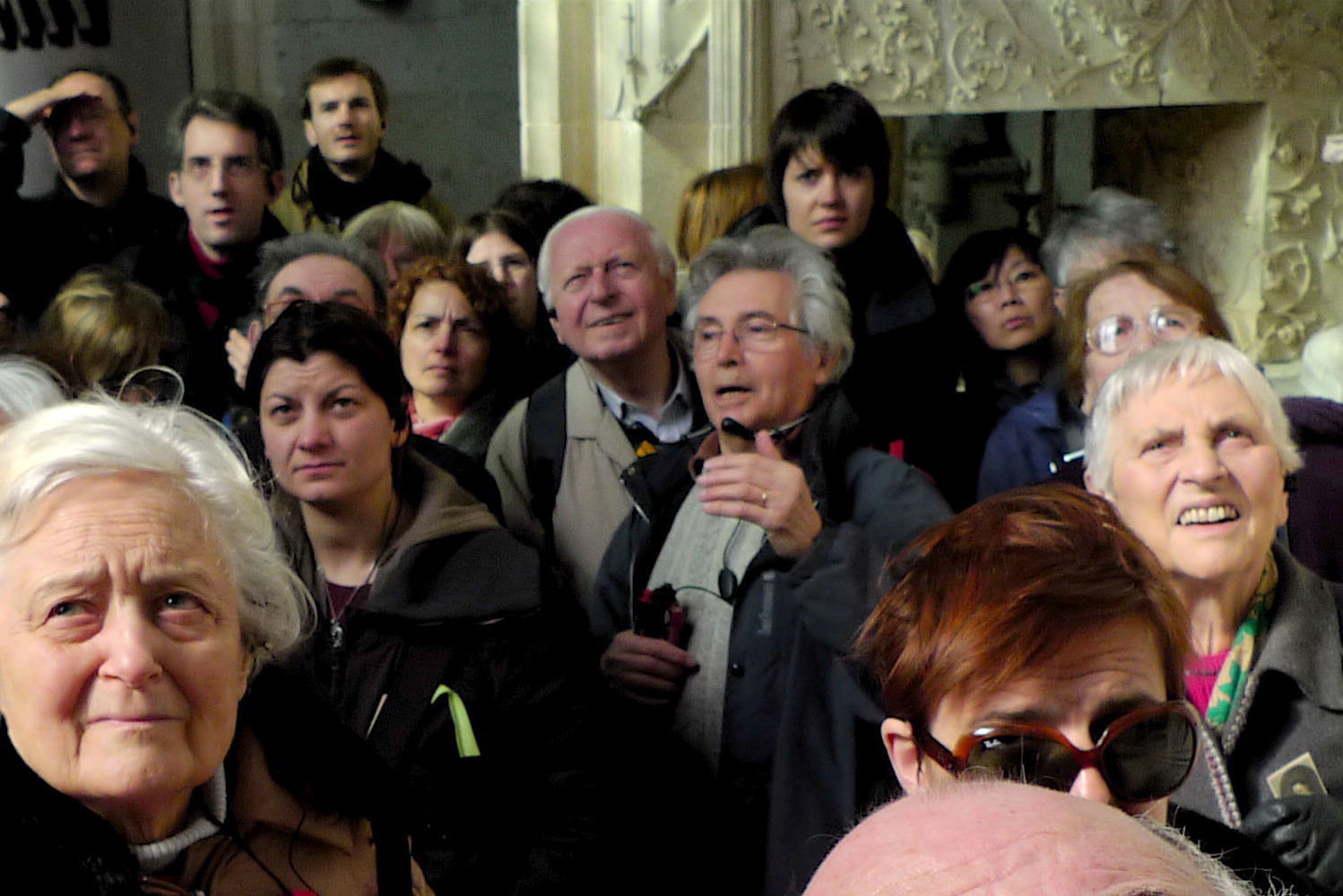 Pierre Michelin, former Folleville mayor, guides a group of visitors inside the Saint-Jacques church